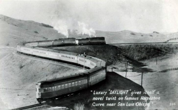 Postcard photo of the Southern Pacific railroad's "Daylight" on Horseshoe Curve.